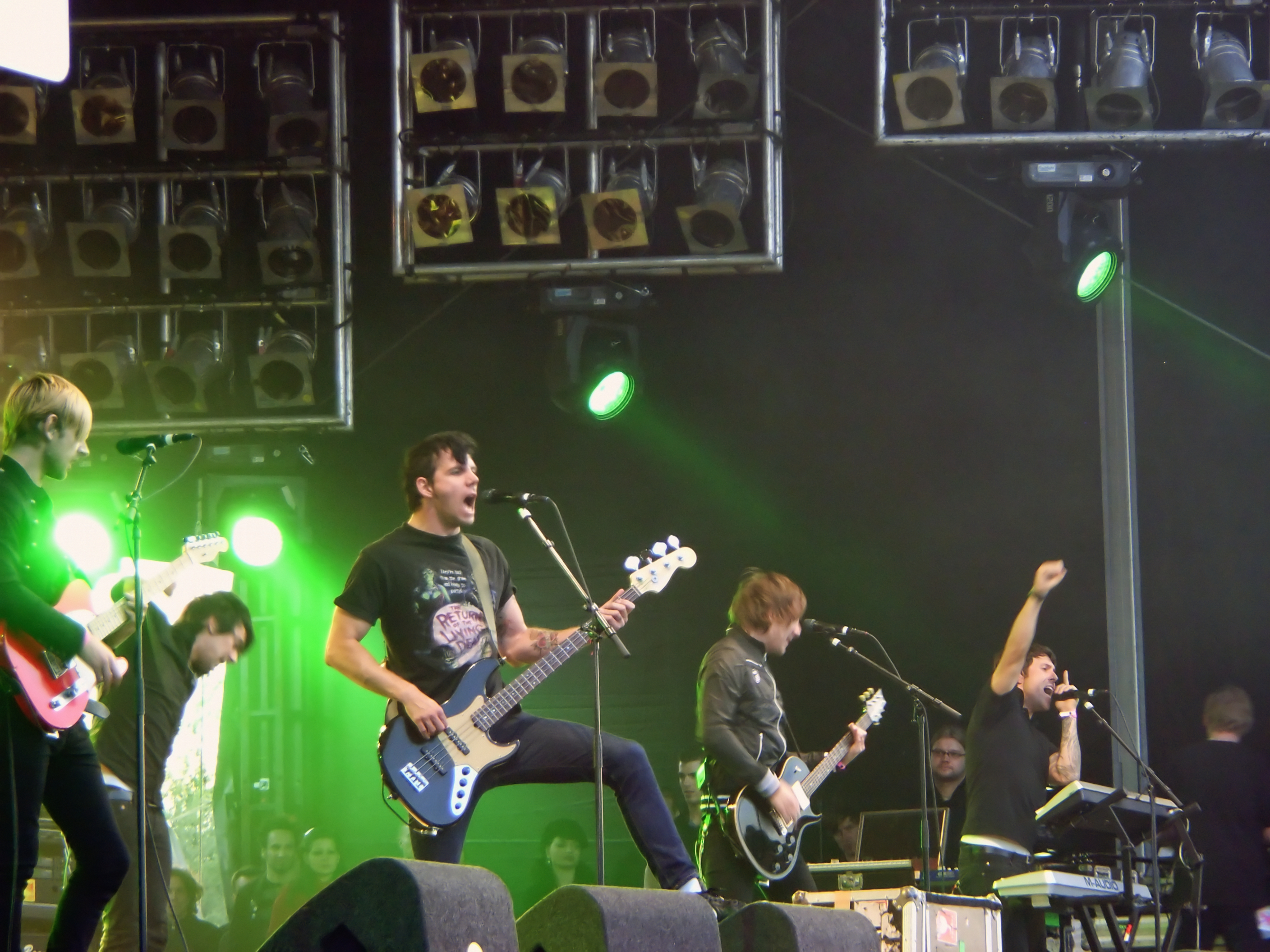 Lostprophets at Pinkpop 2007